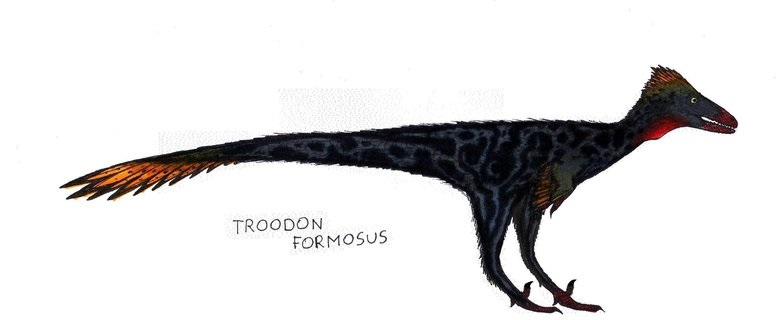 Comparison between Deinonychus (top) and Troodon (bottom)